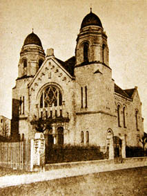 Front of the synagogue of Vitkovice, destroyed by the nazis in 1939